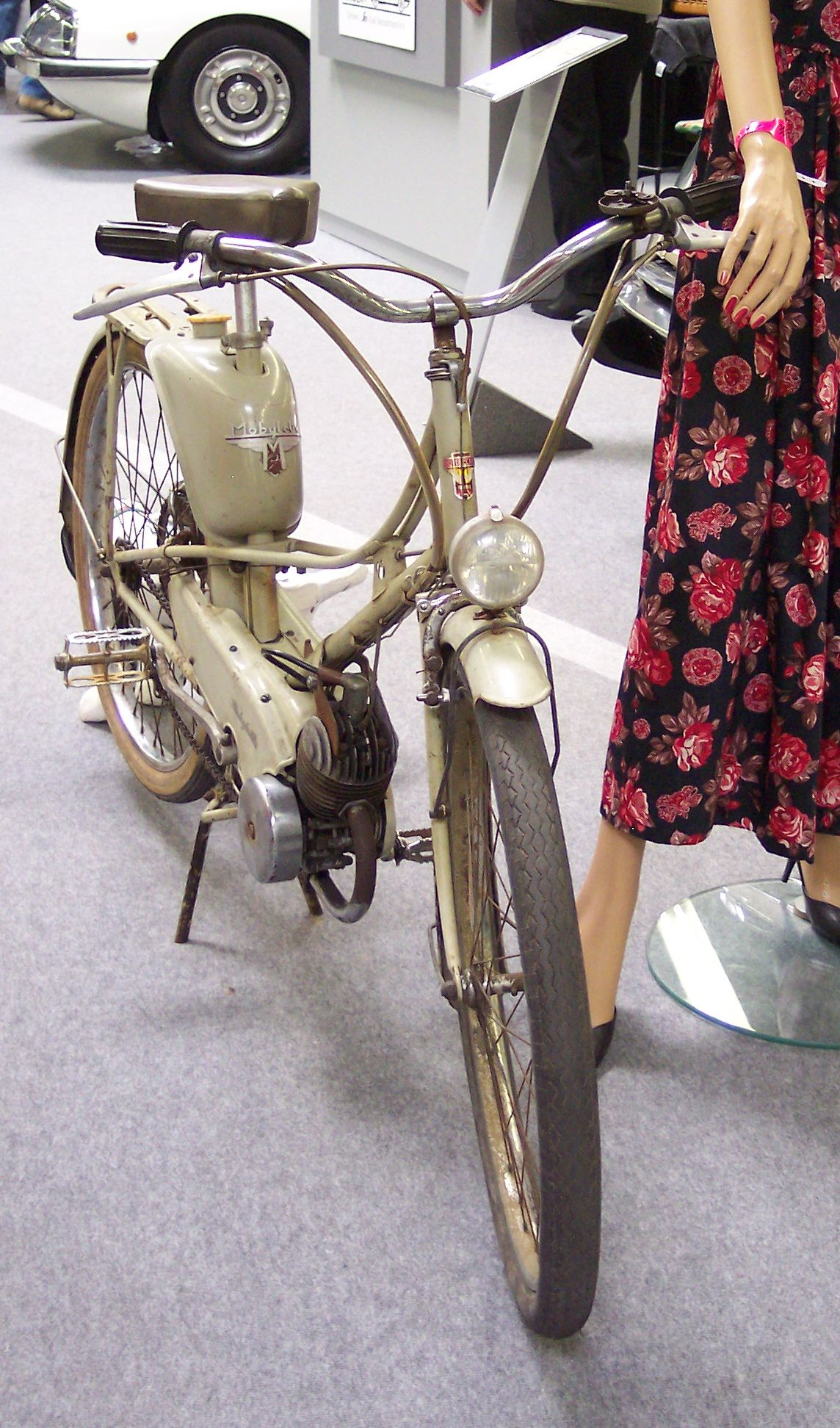 Motobecane Mobylette